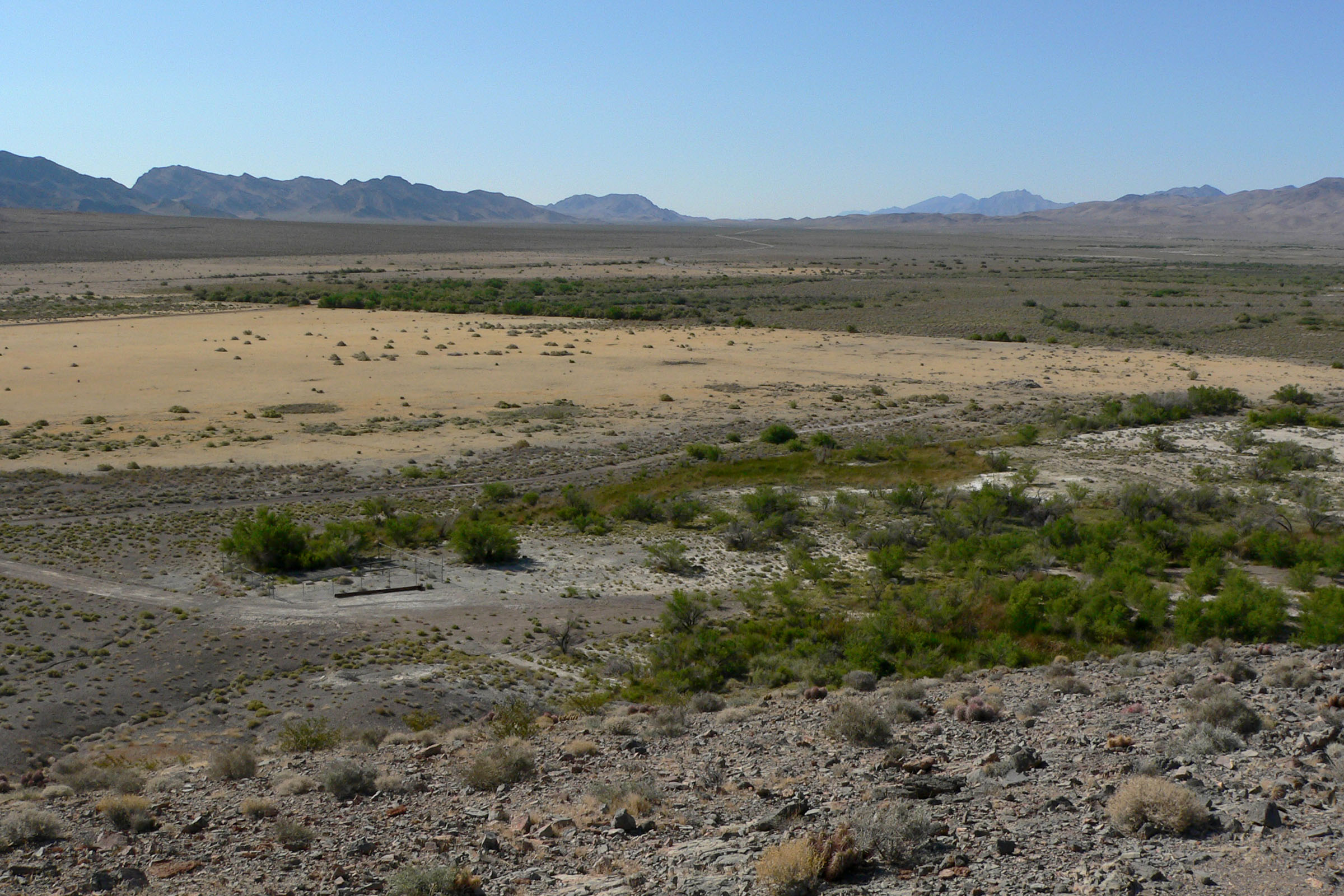 View of Ash Meadows National Wildlife Refuge looking south from Point of Rocks, southern Nevada